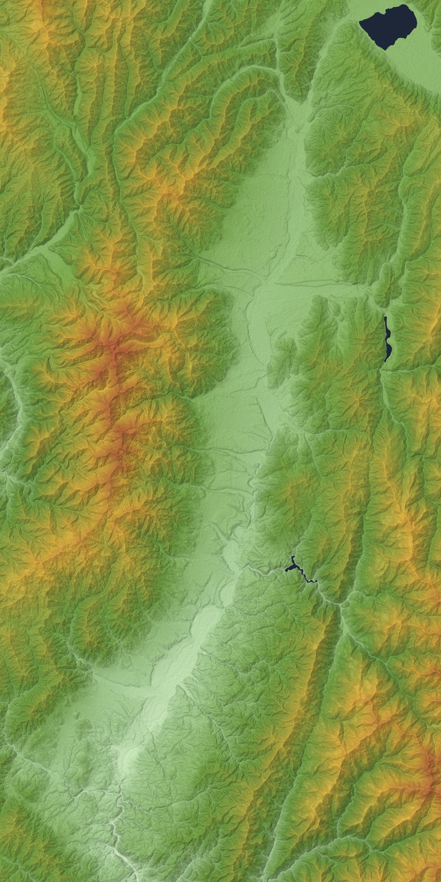 Inadani Valley in Nagano Prefecture, Honshu, Japan.